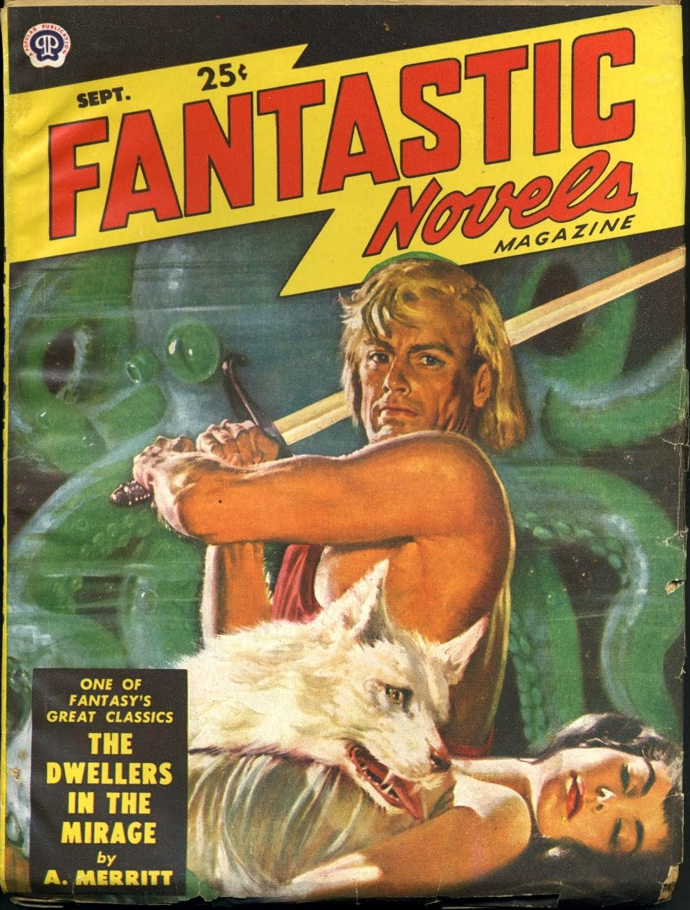 Cover of the September 1949 issue of Fantastic Novels magazine